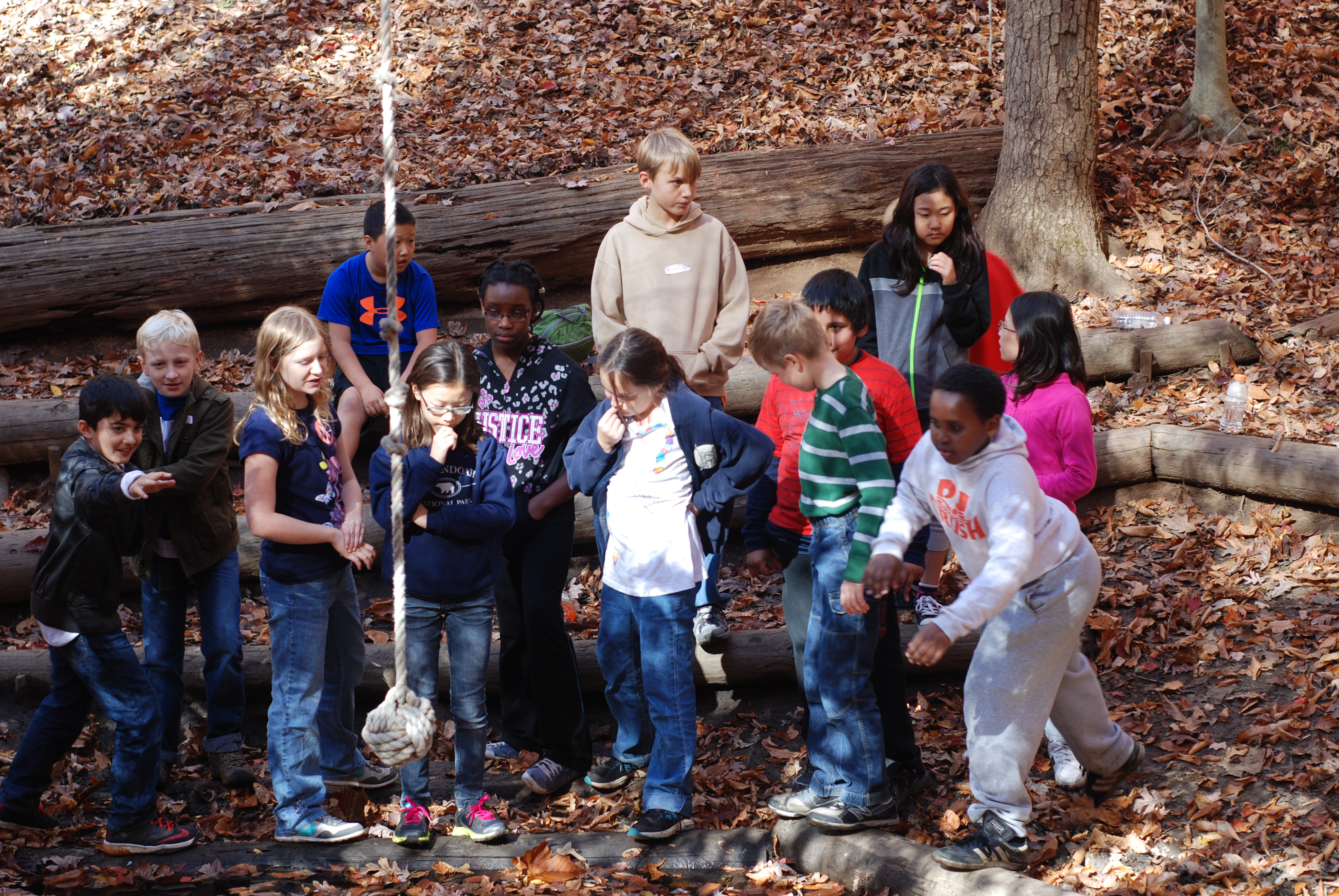 Hemlock Overlook Challenge Course: "Peanut Butter Pit" Challenge where kids had to get out of reach rope without using branches or throwing stuff at it. Than use the rope to swing across the "Peanut Butter Pit". As with other Hemlock Overlook challenges, the success was a result of a planning and executing a strategy that required working as a team.